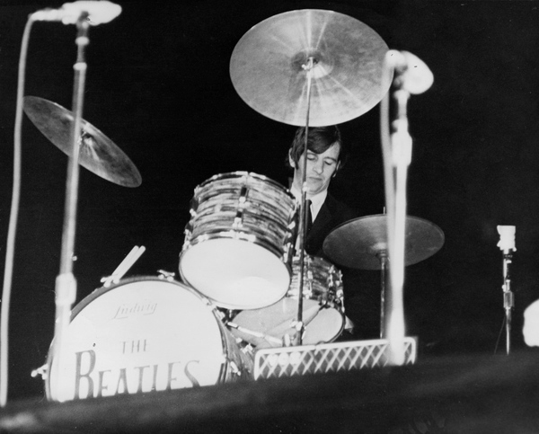 Ringo Starr performing with the Beatles at the Gator Bowl in Jacksonville, 1964.